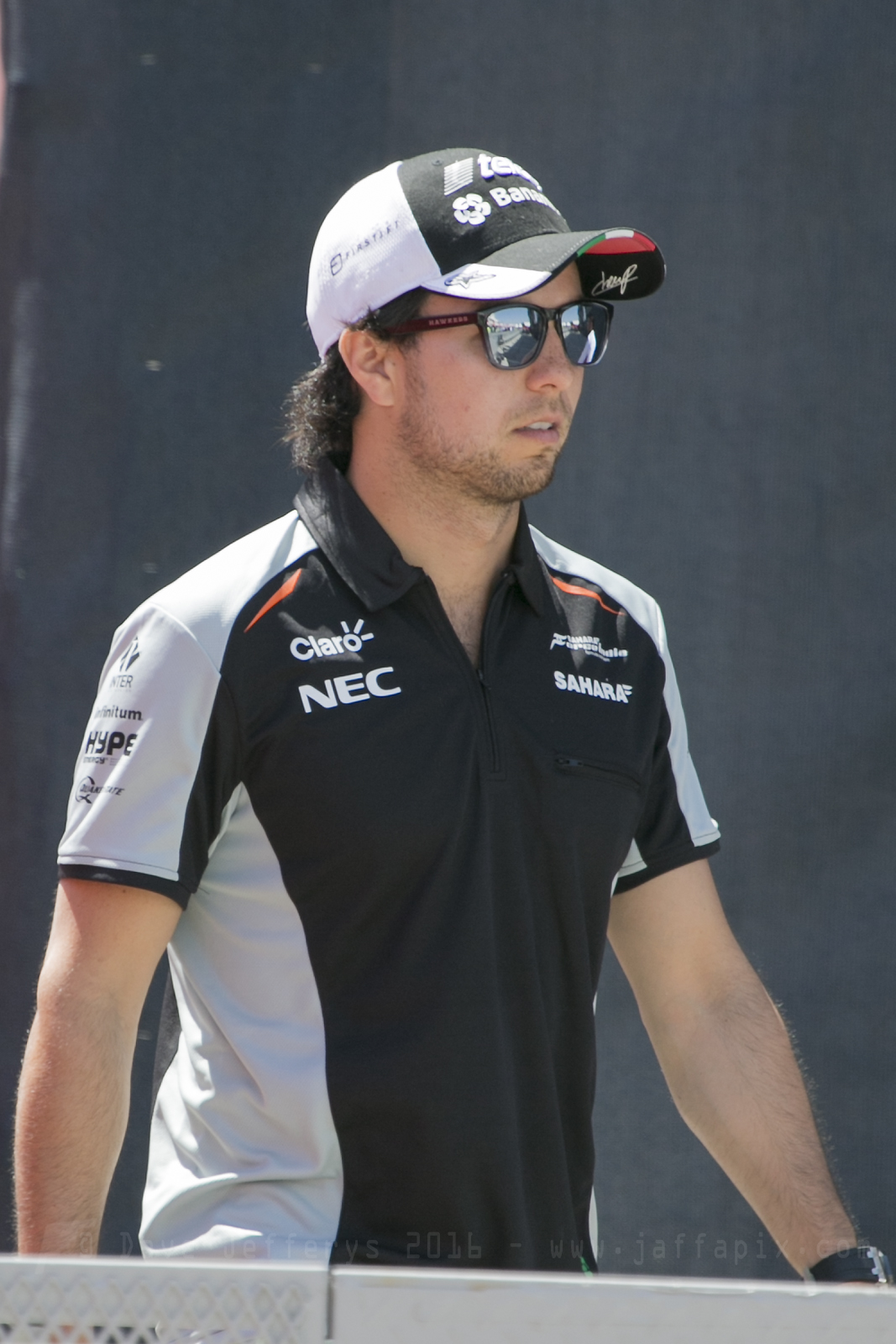 Sergio Pérez at the 2016 Bahrain Grand Prix